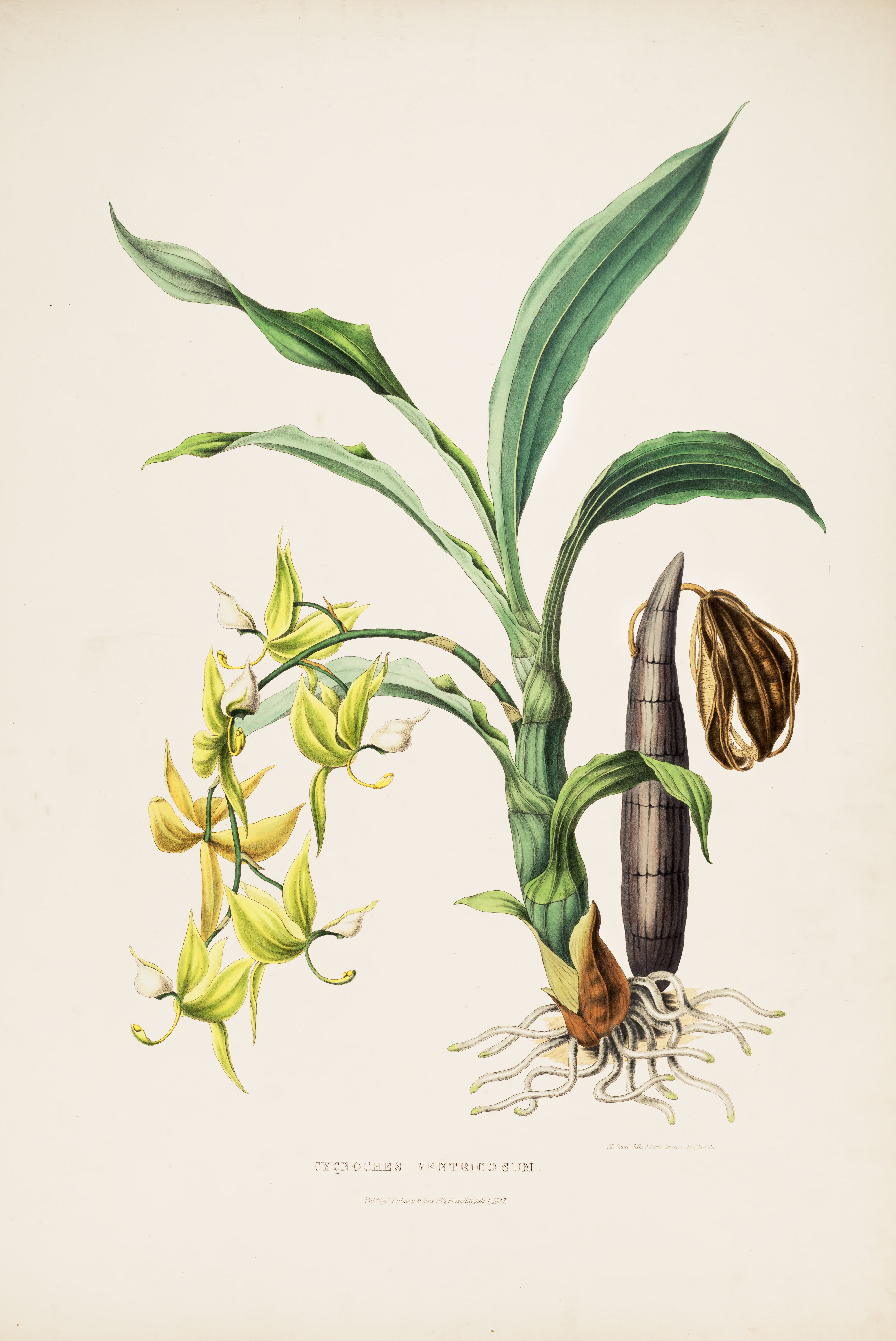 Illustration of Cycnoches ventricosum